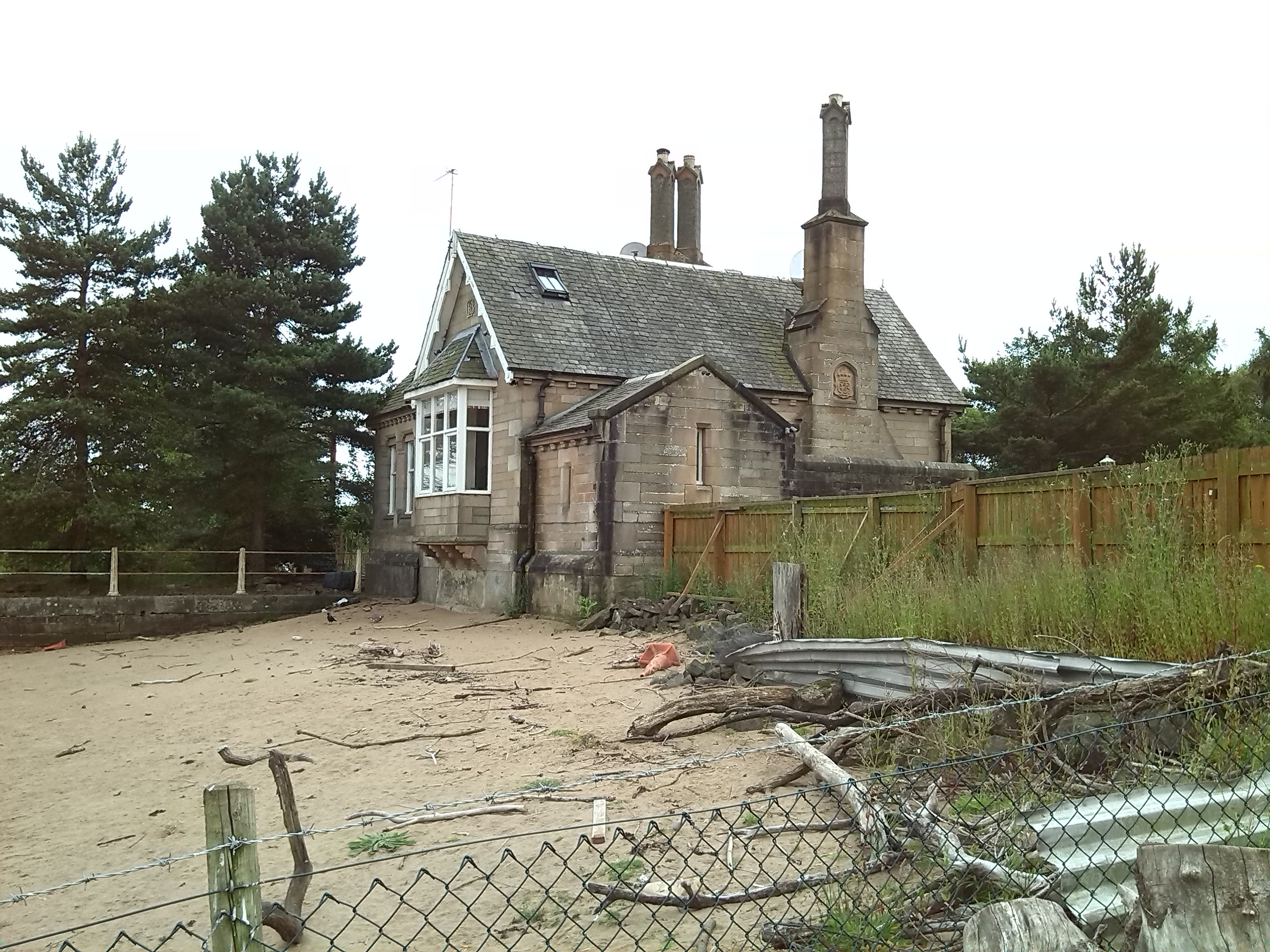 Ferry operators lodge. Grade B listed. Now a house. Designed by Sir Robert Smirke.